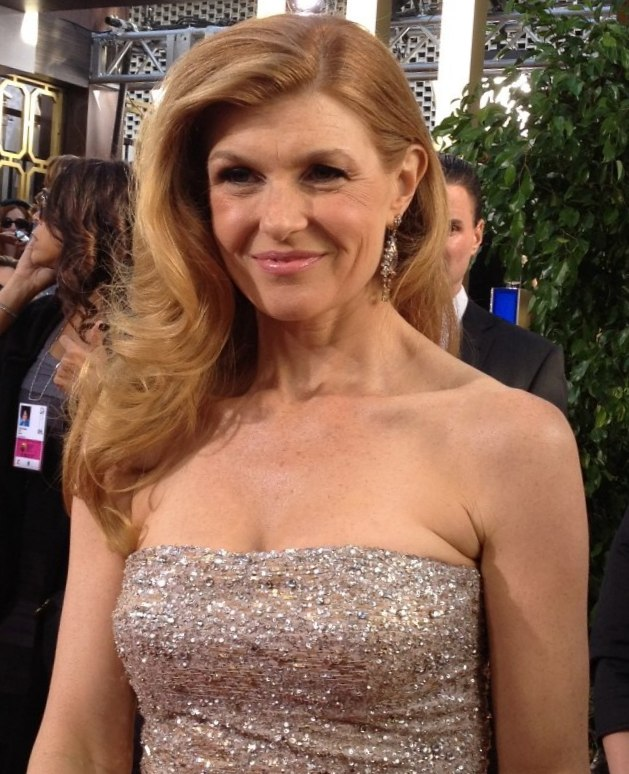 Connie Britton at the Golden Globes 2013.